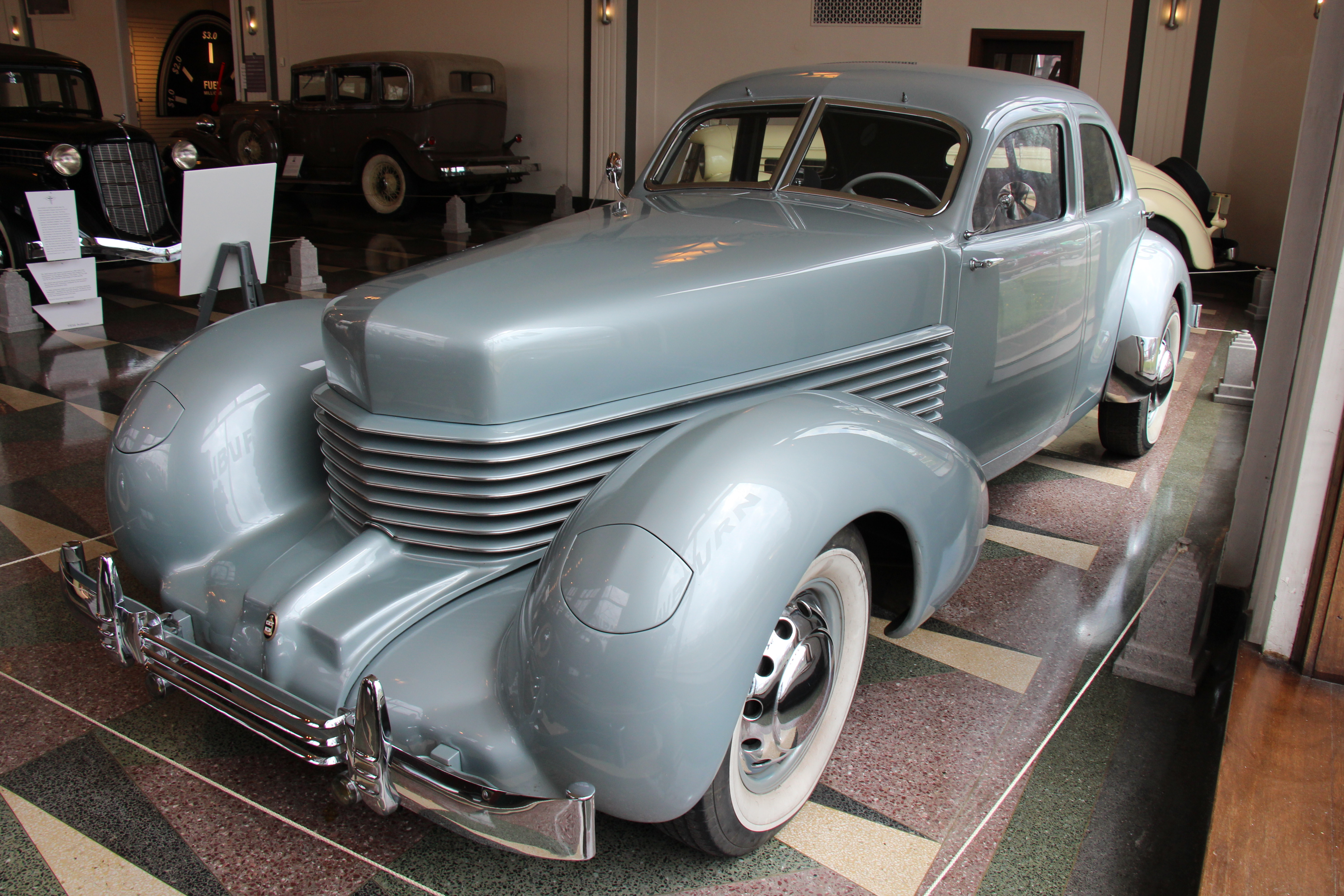 Cord was manufactured by the Auburn Automobile Company from 1929 through 1932 and again in 1936 and 1937. Cord was noted for its innovative technology and streamlined designs. The 1st model, the 29-32 L-29, was the first American front-wheel drive car to be offered to the public, powered by Auburn's 301 cu in straight 8. The 2nd model, the 1936 810 and 1937 812, were also front wheel drive, designed by Gordon Buehrig, were the 1st cars to get hidden headlights, they got a 289 cu in V8. they also got hidden door hinges and a rear hinged hood, which was unusual for the time. The most famous feature was the coffin nose, a louvered wraparound grille. Supercharging was made available on the 1937 812 model. These models were distinguished from the normally aspirated 812s by the brilliant chrome-plated external exhaust pipes mounted on each side of the hood and grill, horsepower was raised to 170. Photographed at the Auburn, Cord, Duesenberg Museum, Auburn